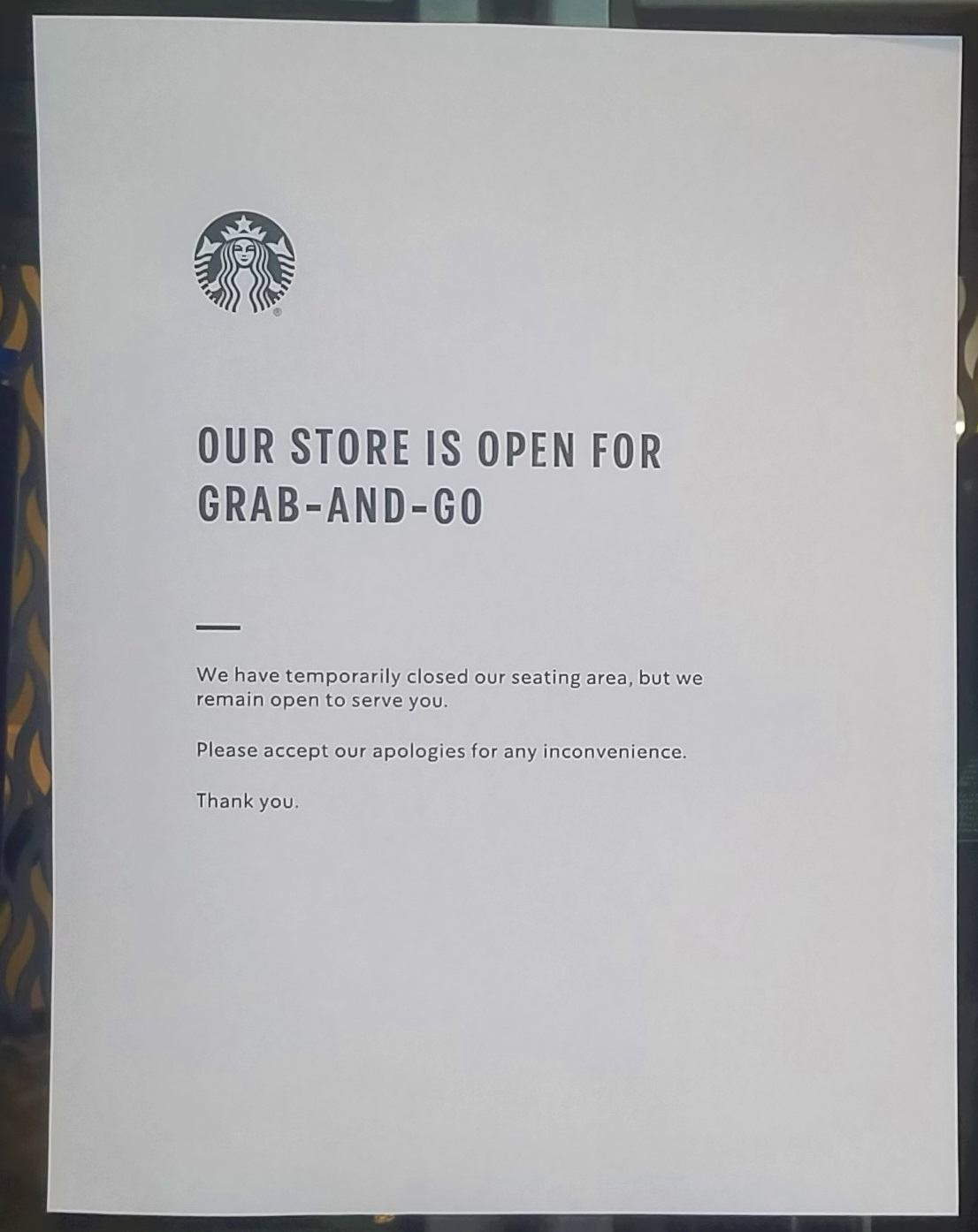 A sign indicating that this is restricted to only to-go and mobile orders because of an executive order during the 2020 coronavirus pandemic in North Carolina